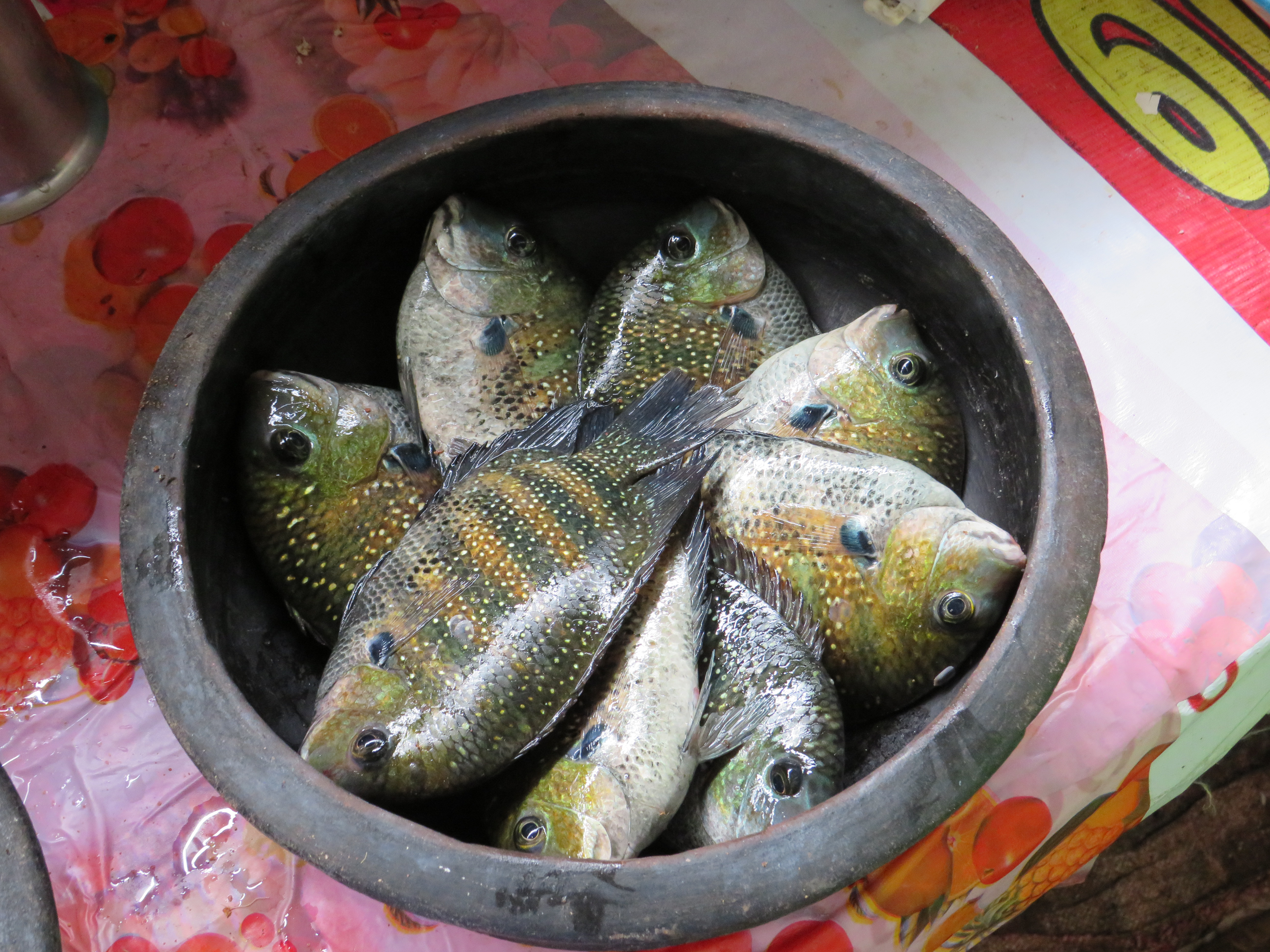 Karimeen in an earthen vessel